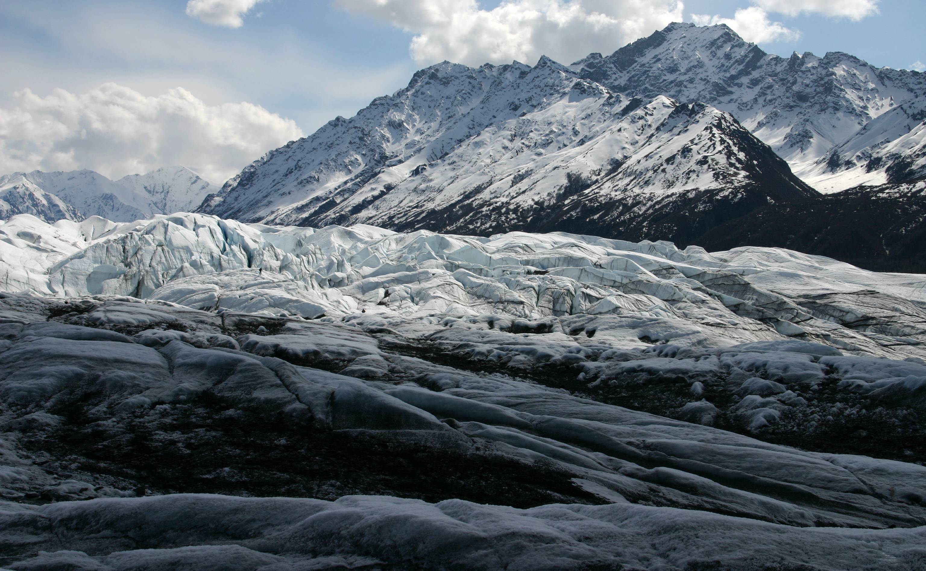 Taken at Matanuska Glacier, NE of Anchorage, Alaska in May 2008.